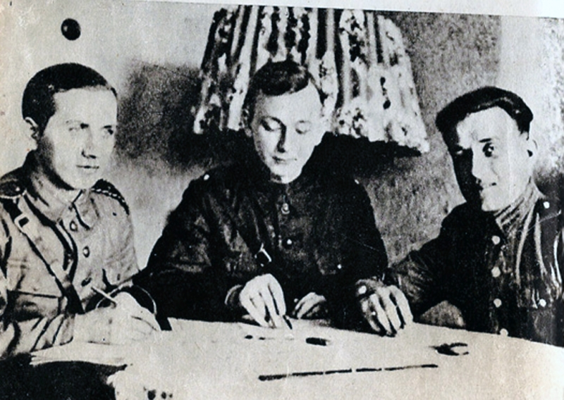 Members of the group "Łudź", March 1945 years